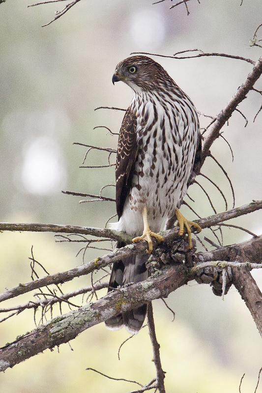 Oceano, San Luis Obispo Co., CA USA September 4